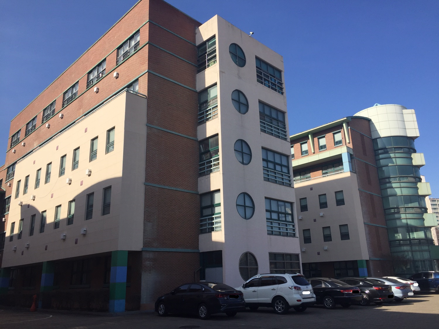 대한민국 경기도 파주시 파주와동초등학교